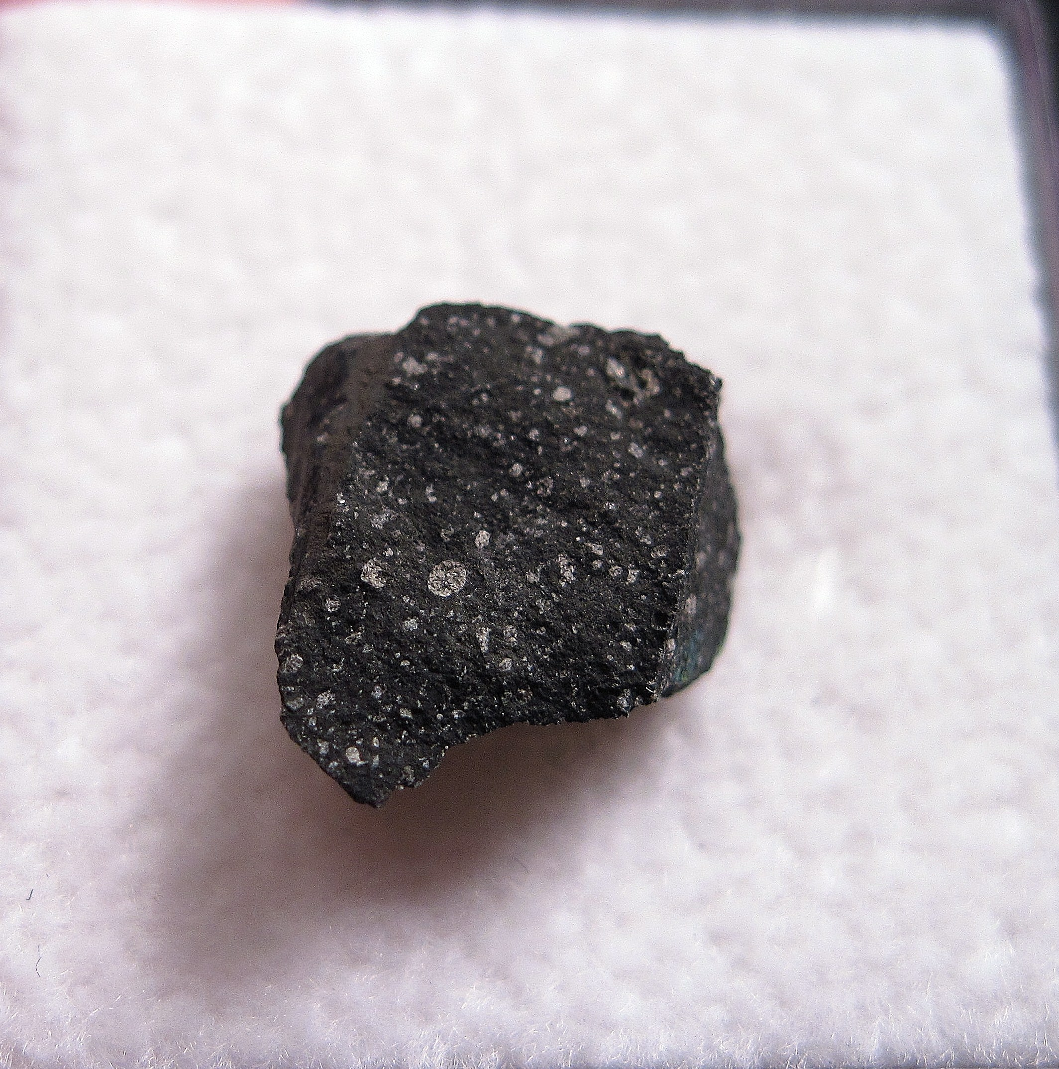 This famous fall took place on Sep 28, 1969, in Victoria, Australia. Murchison is a scientifically important carbonaceous chondrite (CM2) that is rich in amino acids and other organic compounds. Fragment weighing 0.459 grams.